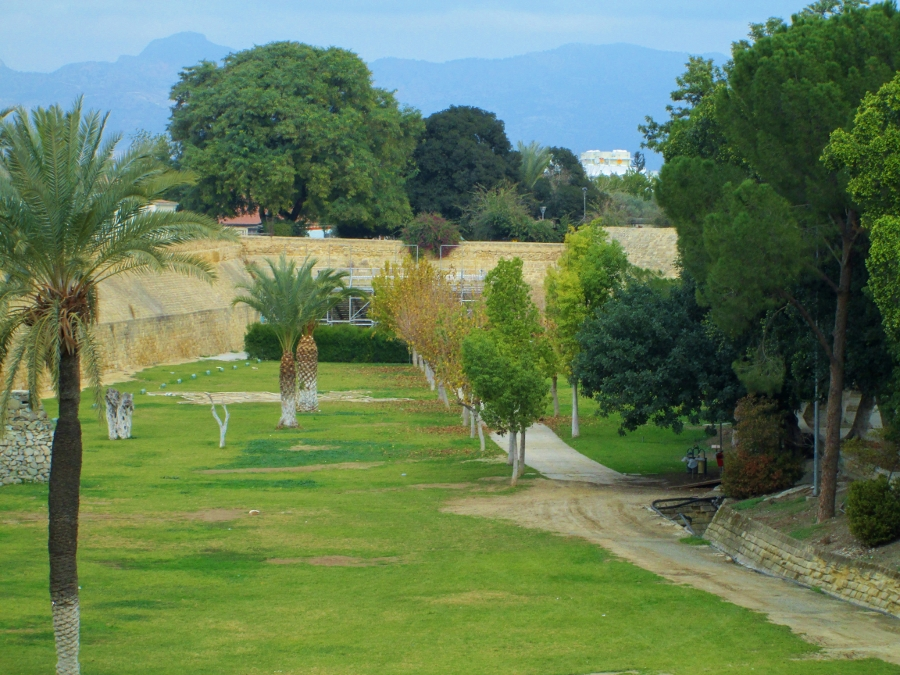 Nicosia Venetian old aquedact and park gardens palm trees Nicosia Republic of Cyprus